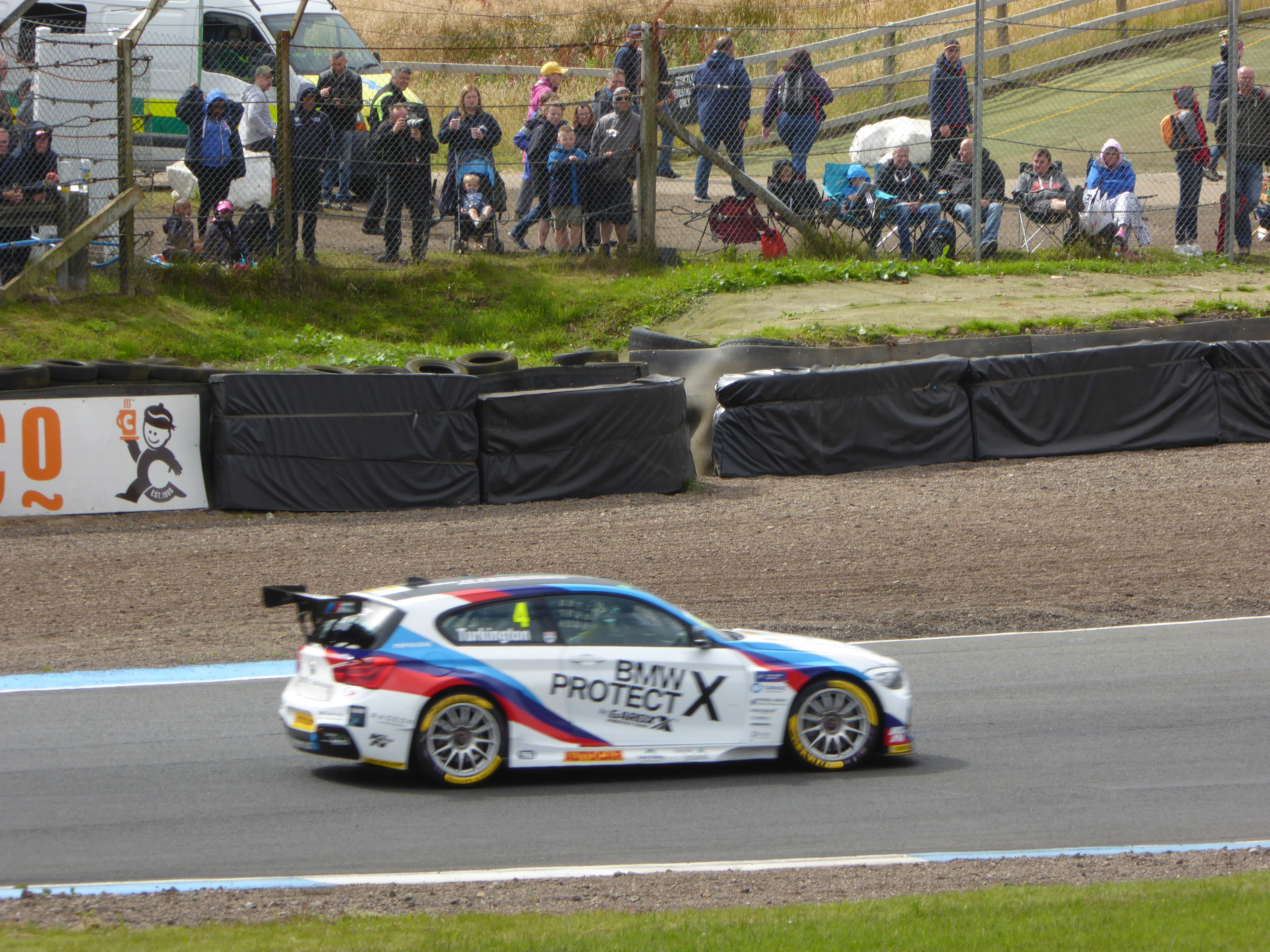 Colin Turkington (Team BMW), at the Knockhill round of the 2017 British Touring Car Championship.